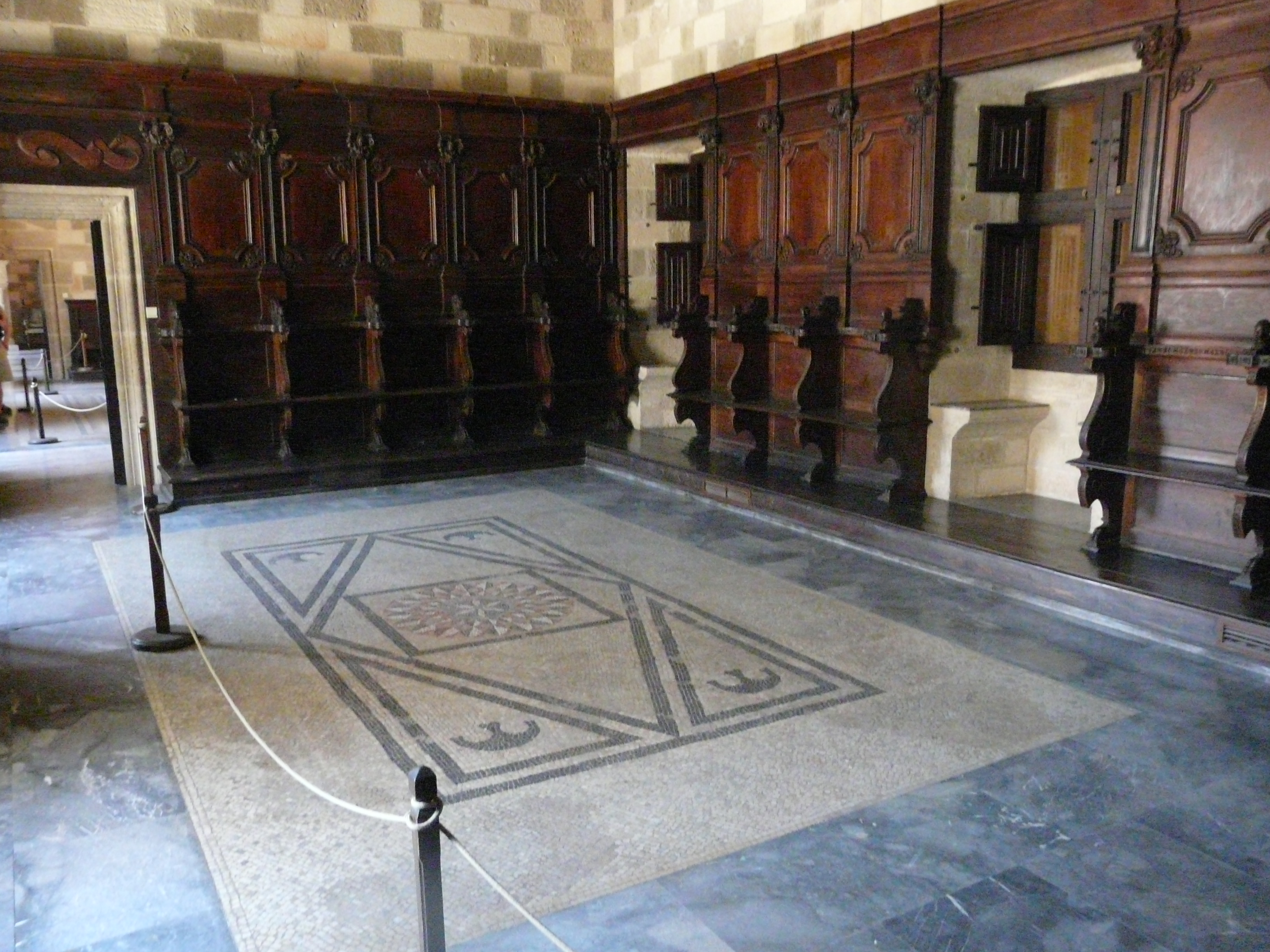 Palace of the Grand Master of the Knights of Rhodes